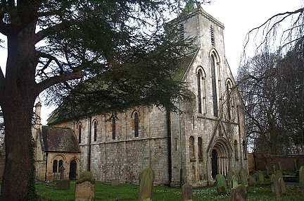 Nun Monkton, St Mary's Church, North Yorkshire, England. At grid reference SE5157.